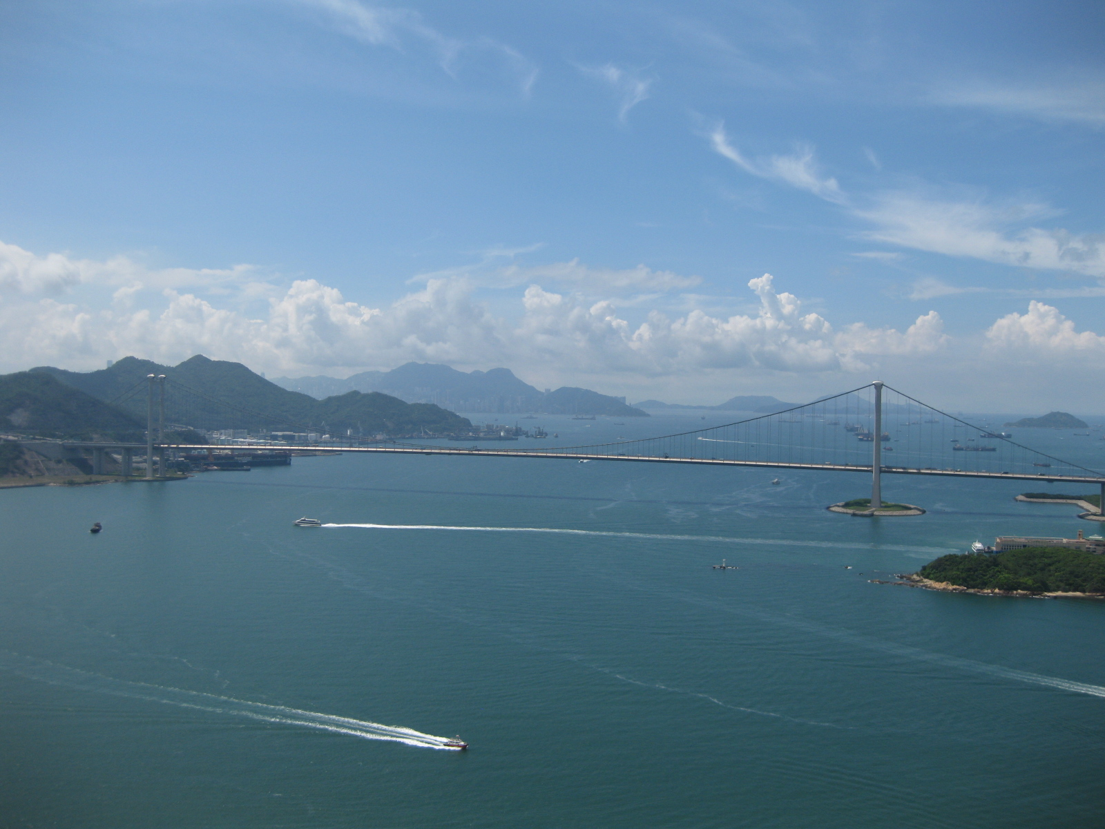 Tsing Ma Bridge from Sham Tseng